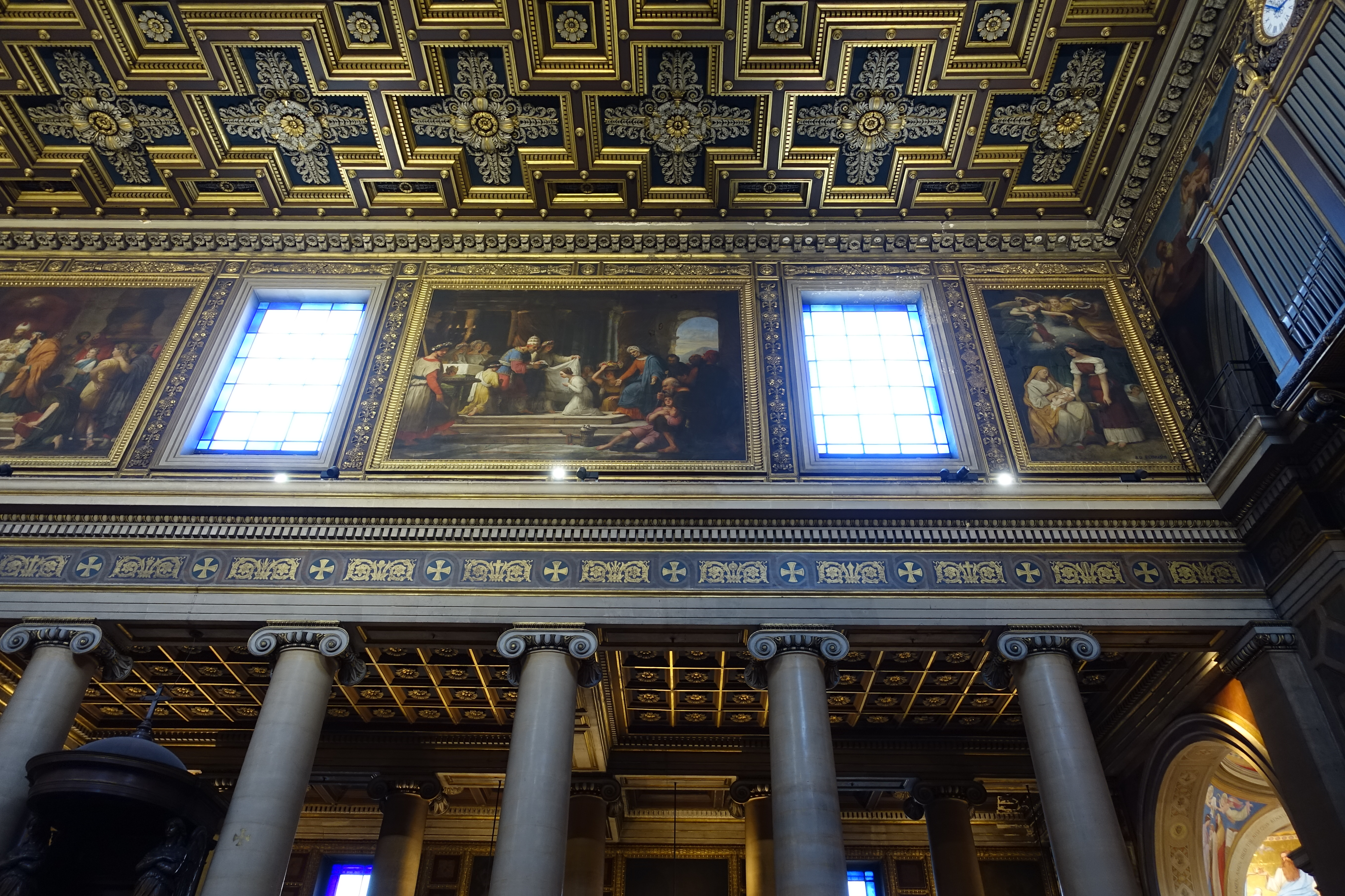 The Church of Notre-Dame-de-Lorette, a neoclassical church in the 9th arrondissement of Paris. Address: 1 Rue Flechier, 75009 Paris, France.